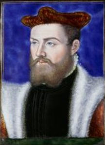 Odet de Coligny, Cardinal de Chatillon